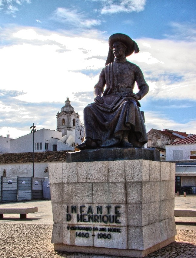 Henry the Navigator